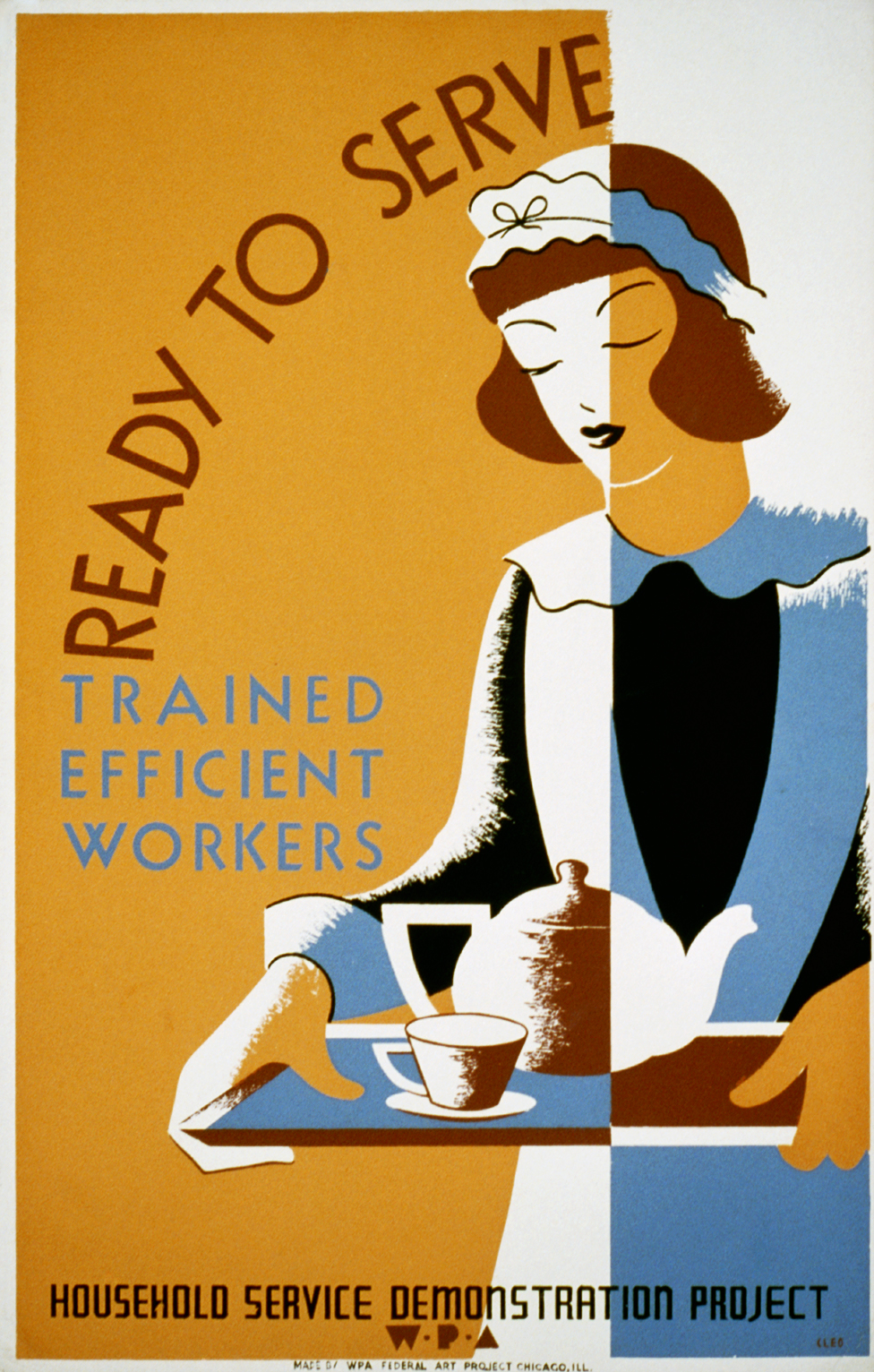 Stylized drawing of a maid on a Works Progress Administration (WPA) poster.